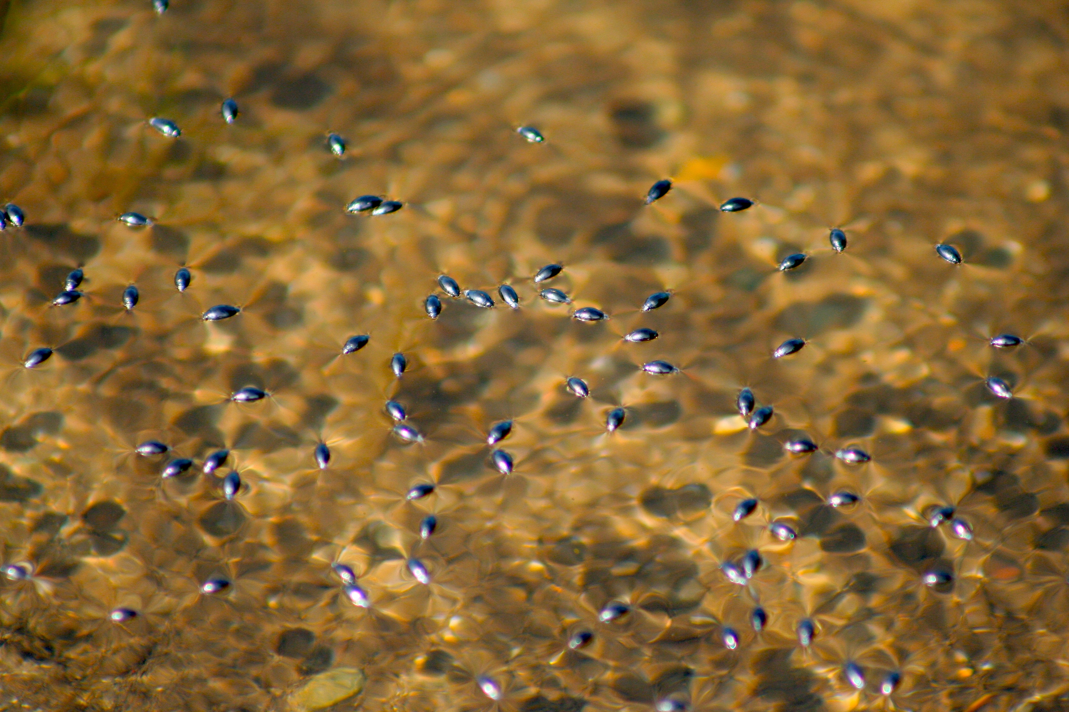 A dense group of whirligig beetles Gyrinus sp. Photo taken in Fort Custer Recreation Area (Michigan, USA)